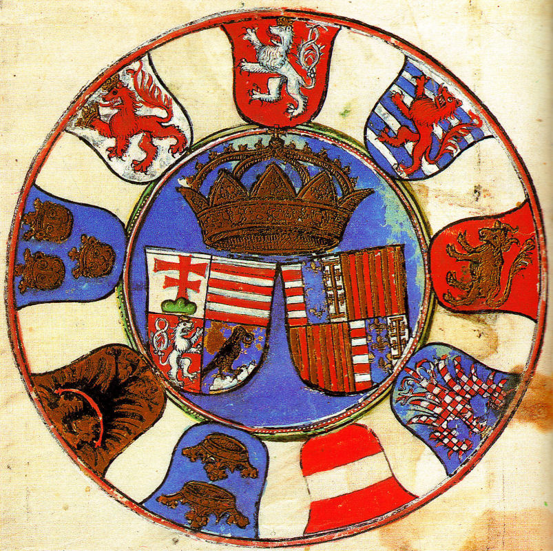 COA of Matthias Corvinus of Hungary